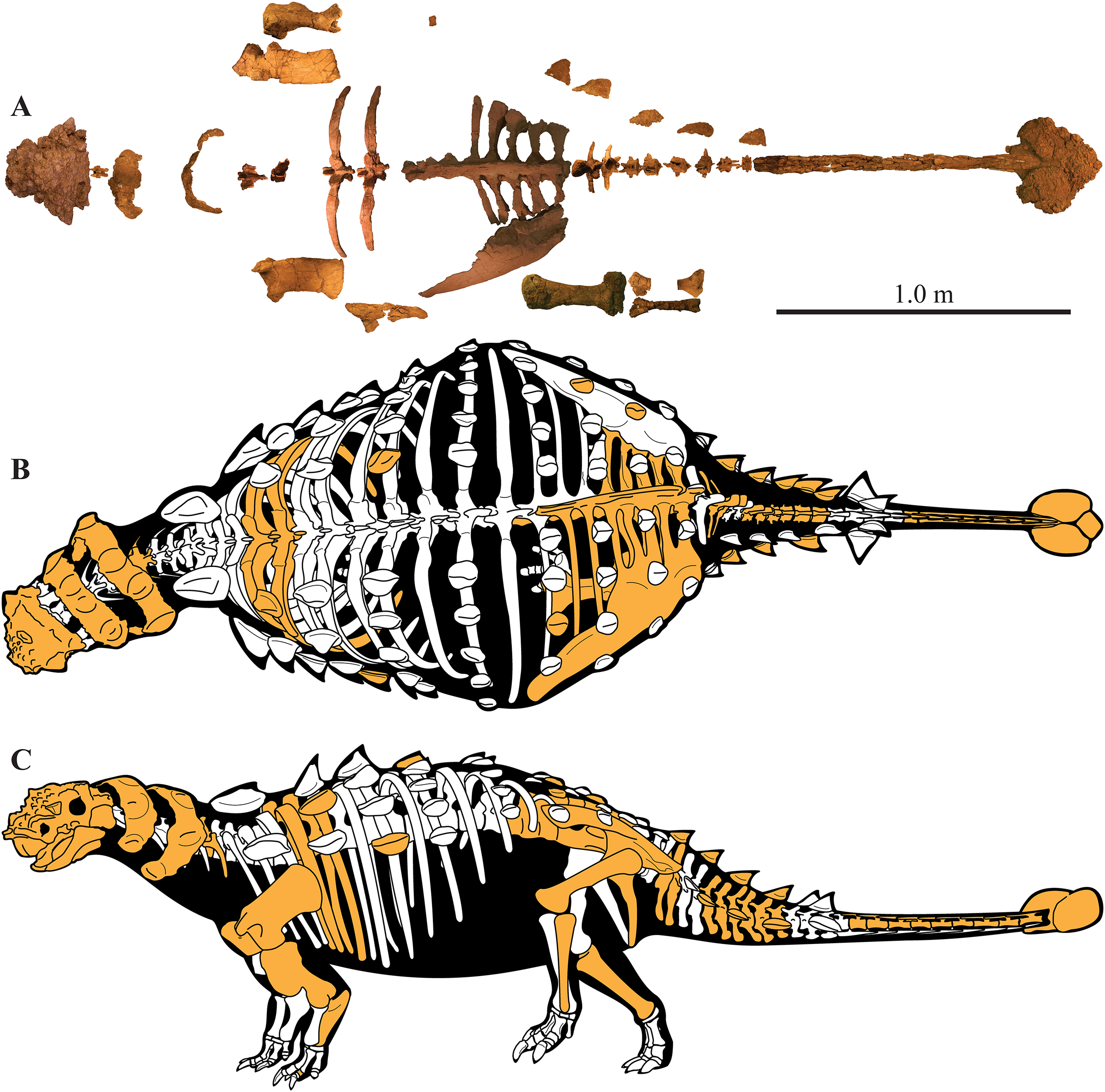 Preserved elements and skeletal reconstructions of Akainacephalus johnsoni. A composite showing all holotype skeletal material of Akainacephalus johnsoni (UMNH VP 20202) anatomically arranged in dorsal view (A). Cartoon illustrating a full body reconstruction for A. johnsoni in (B), dorsal; and (C), left lateral view. Preserved material in the skeletal reconstructions is highlighted in orange.